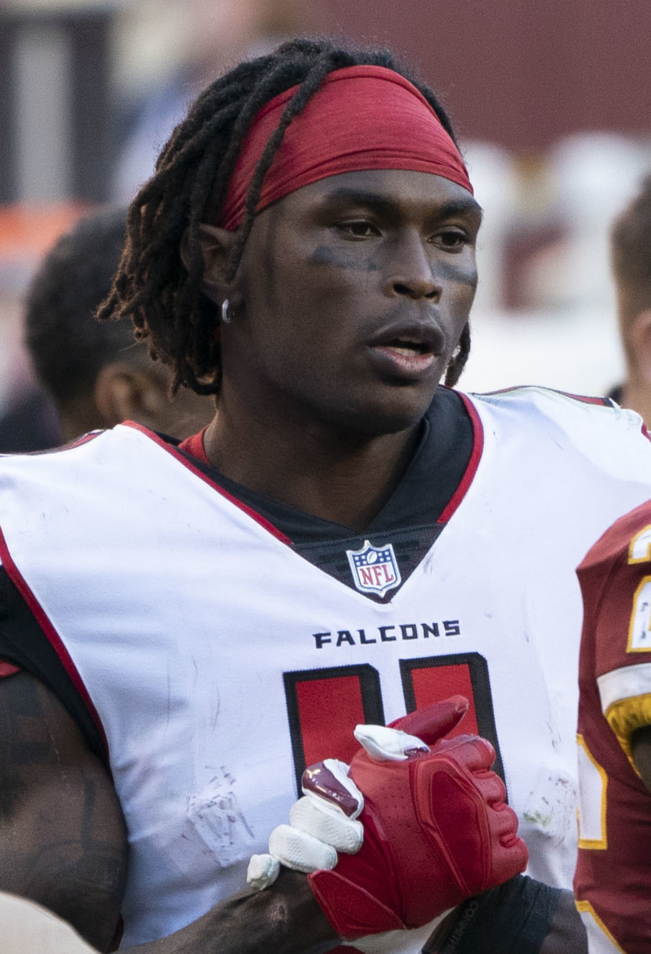 Julio Jones at the game Falcons at Redskins 11/04/18